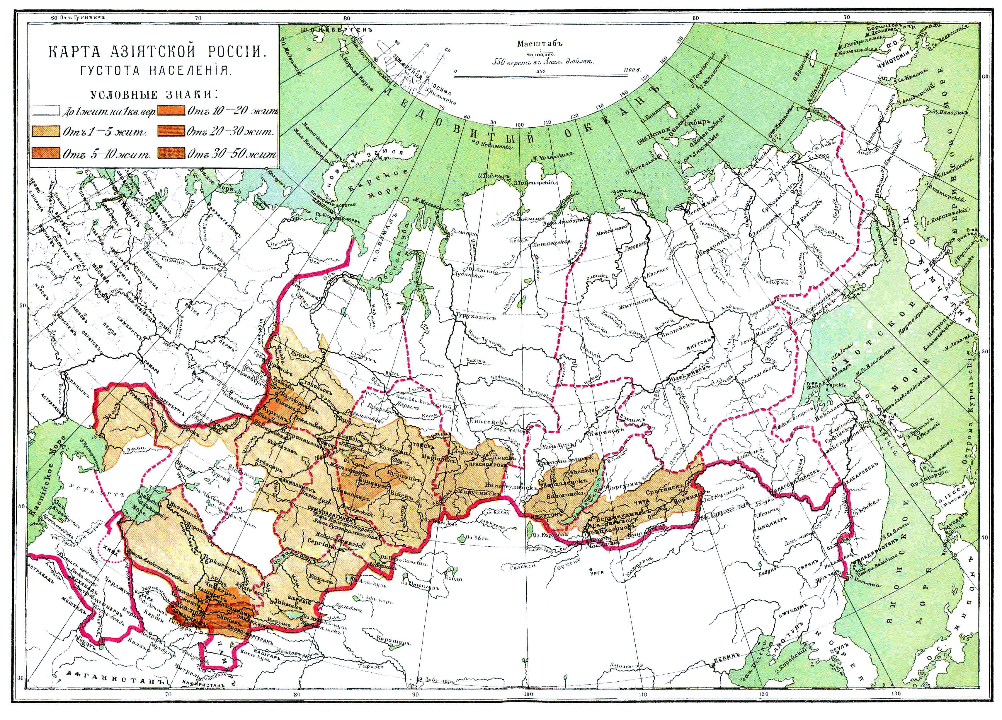 Illustration from Brockhaus and Efron Encyclopedic Dictionary (1890—1907)